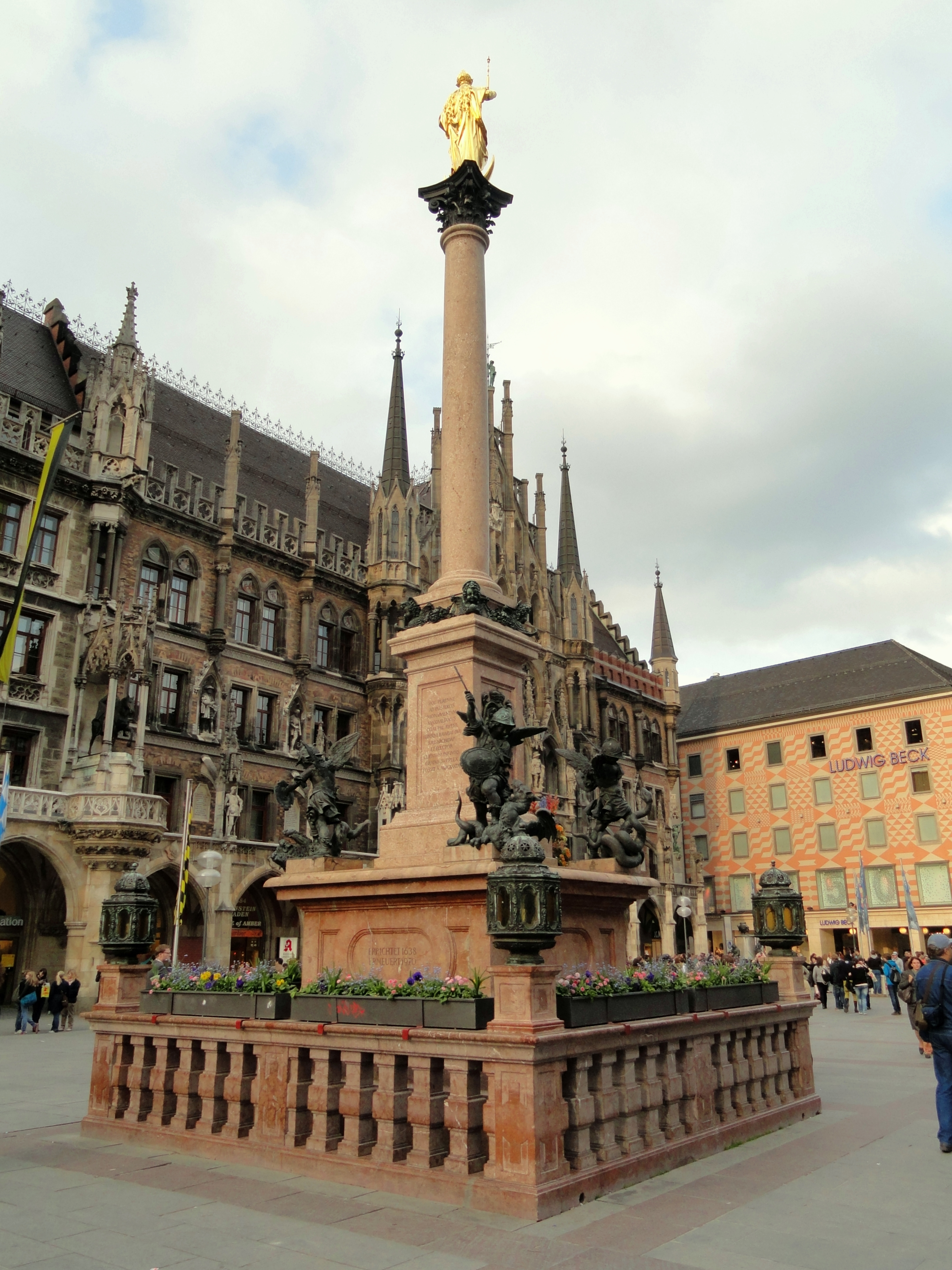 Mariensäule, Marienplatz, München, Germany.